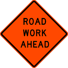 A typical MUTCD sign